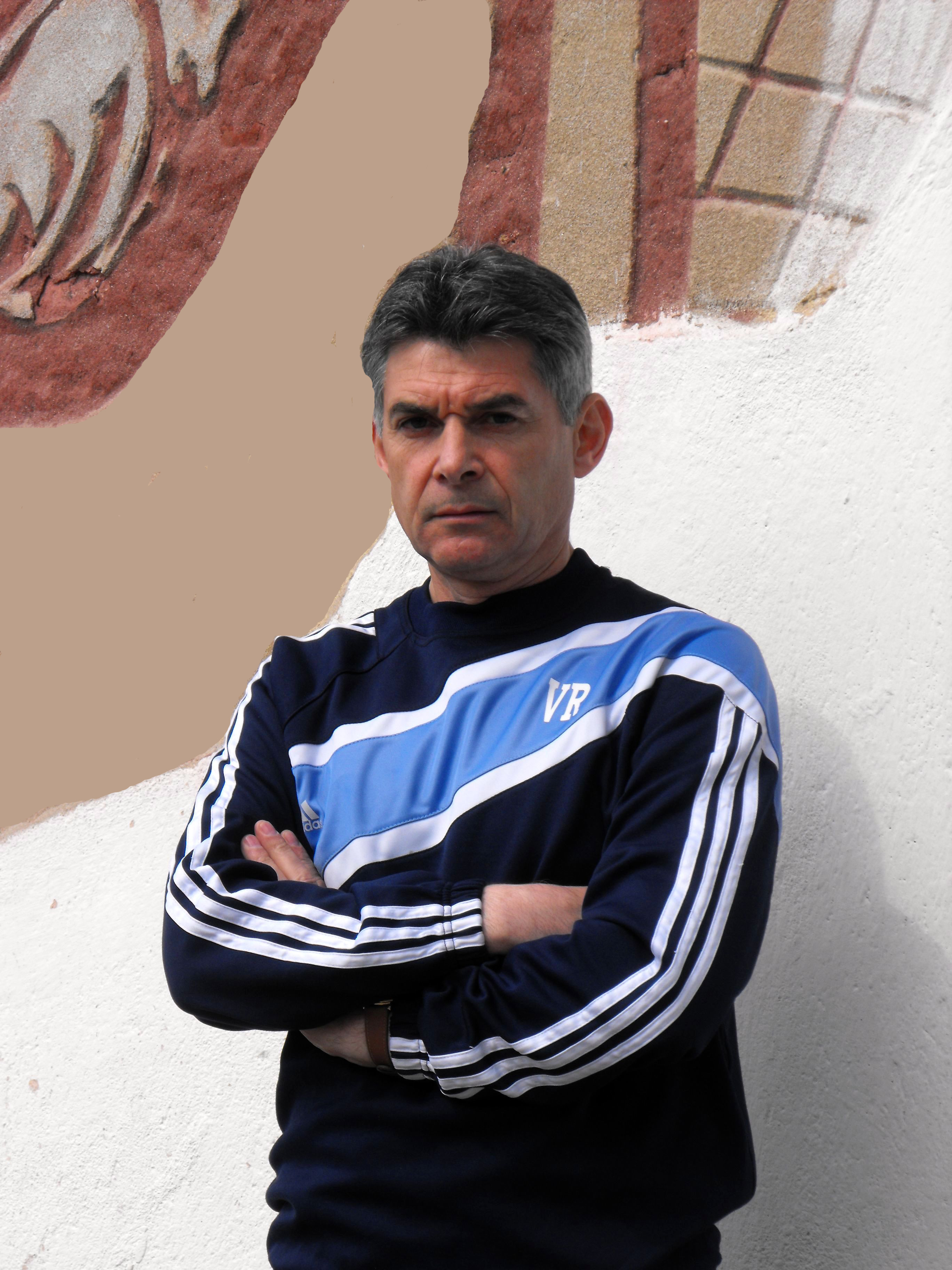 Vencislav "Venci" Rangelov - bulgarian soccer team "Slivnishki geroi" head coach.